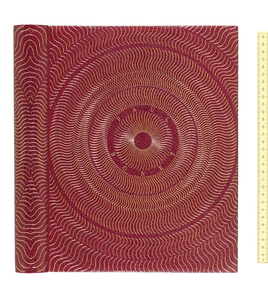 Bound by Paul Bonet, French, 1961. Paul Bonet (1889–1971) Red goatskin with circular design in gold on both covers made up of wavy lines radiating from the centre. Commissioned by Albert Ehrman, who was anxious to own an example of the work of arguably the greatest French binder of the 20th century. Bonet did not actually bind this book himself, but designed the work that was 'finished' by craftsmen in his atelier. Bonet's original designs are in the volume.